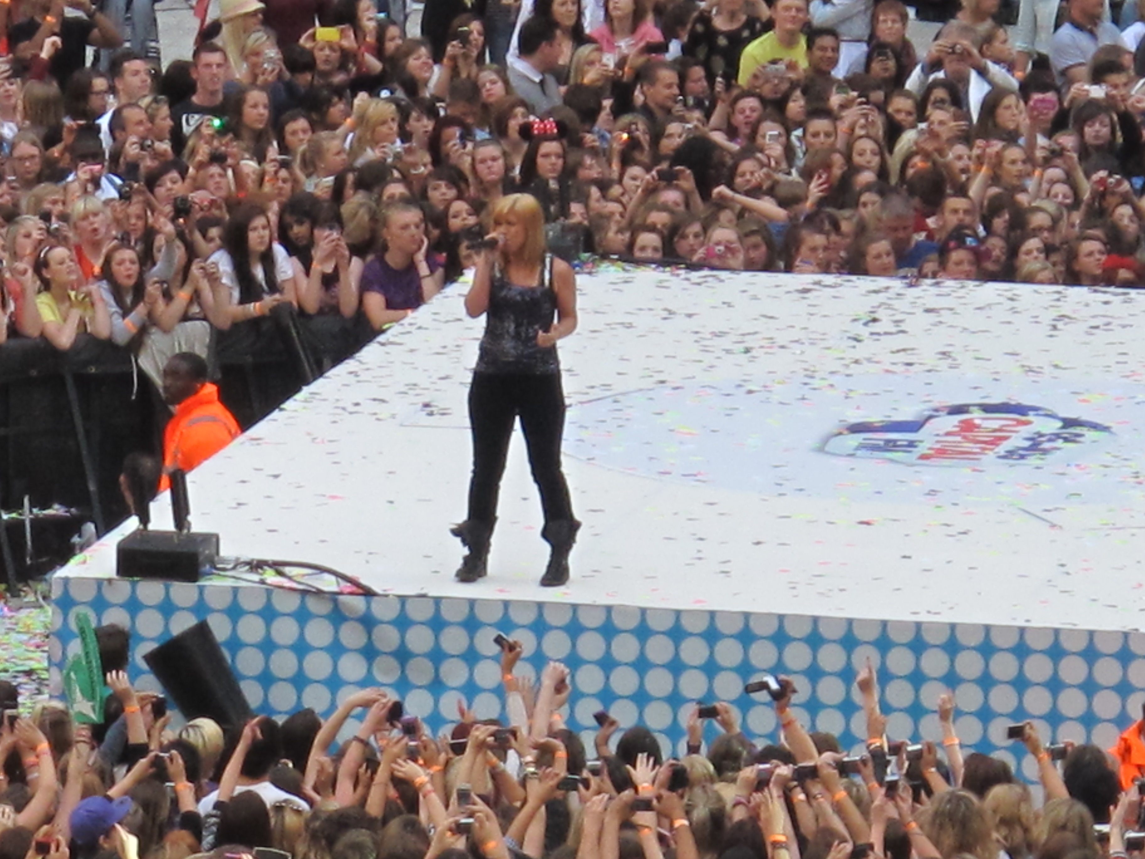 Kelly Clarkson performing at Capital Fm Summertime Ball, London, in 2012